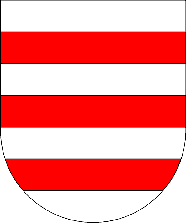 coats of arms of the lordship of Breuberg